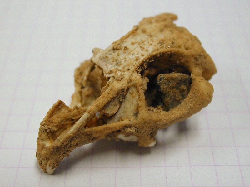 Fossil skull of the extinct sardinian pika Prolagus sardus, here from the Upper Pleistocene of Macinaggio, northern Corsica. Grid scale 5 mm. Collections of the University of Burgundy, France